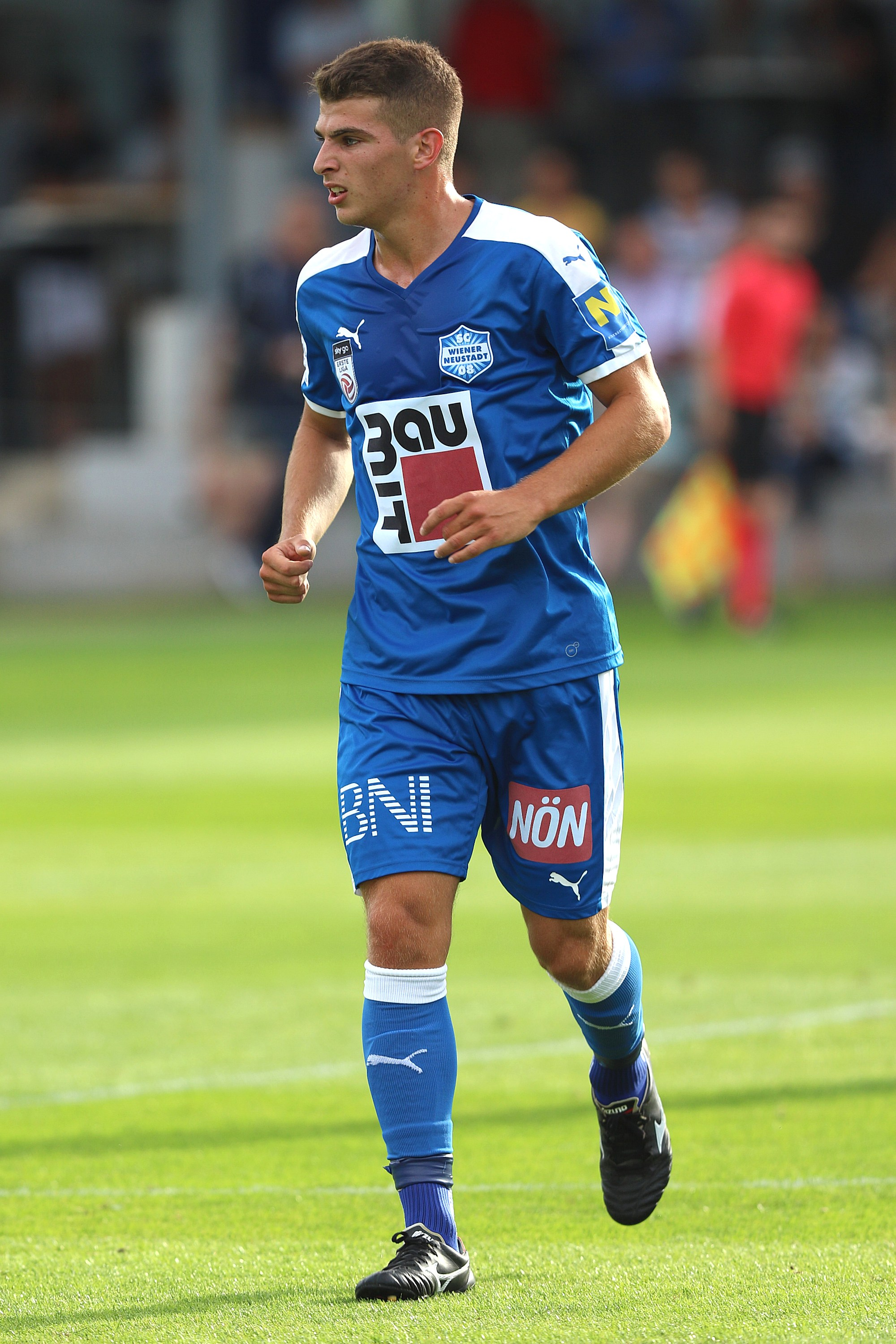 Friendly match SC Wiener Neustadt (blue shirts) vs. SV Lafnitz (white shirts) in the sportscenter in Katzelsdorf. – The photo shows Ivan Ljubic (SC Wiener Neustadt).